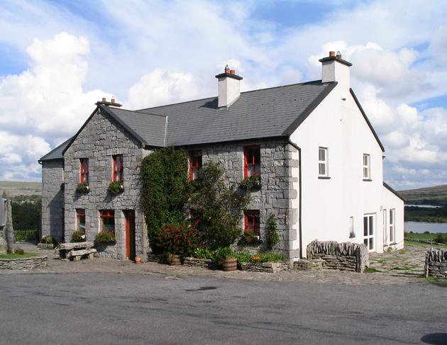 Cassidy's pub and restaurant, Carran, Co. Clare One of the oldest Pub and Restaurants owned conteniously by the same family. It was established in 1797 as a shibeen an then licenced in 1830. the original premesis was accross the street and the business was moved to this building in 1956.This building was the R.I.C barracks and later the Garda barracks which became vacant in 1955 when the gardai left the area. Today this Pub and Restaurant is well known for great food and traditional music sessions and is a popular venue for weddings. .